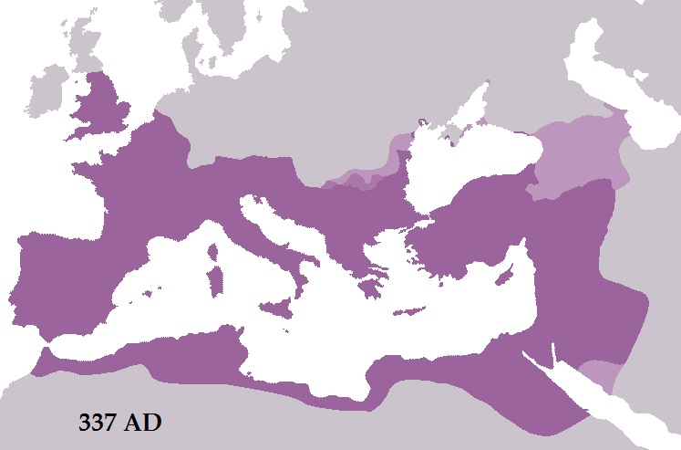 The Roman Empire in 337 AD after the conquests of emperor Constantine the Great. Roman territory is dark purple, Constantine's conquests in Dacia are medium purple, and Roman dependencies are light purple. There are four areas of Roman dependencies displayed: the Tervingi (center, above medium purple); the Bosporan Kingdom (uppermost); Armenia, Colchis, Iberia, and Albania (top right); and the Tamudaei (bottom right).